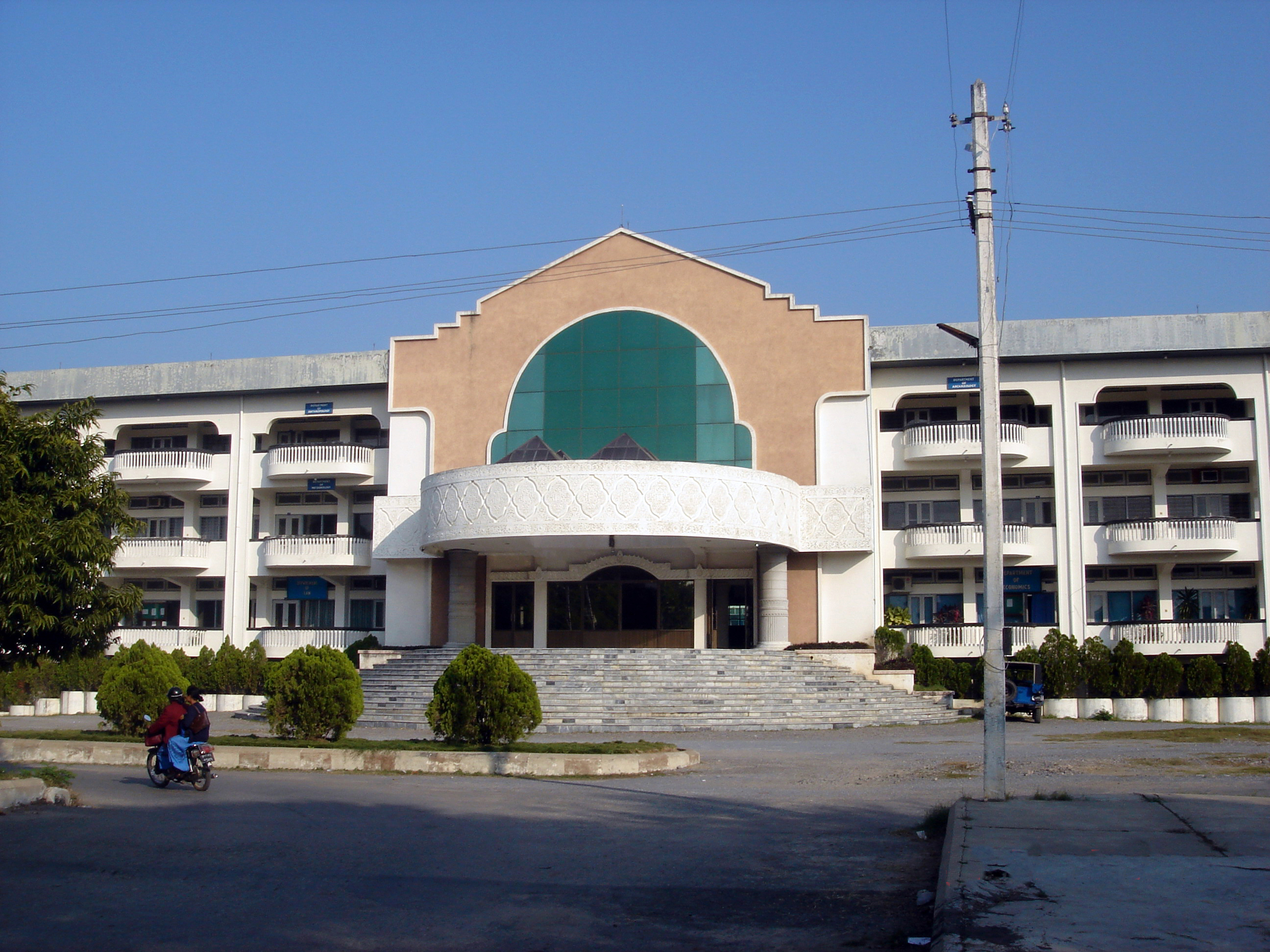 Mandalay, Mandalay District, Mandalay Division, Union of Myanmar Four-storeyed building of University of Mandalay (former main building of University of Foreign Languages, Mandalay)